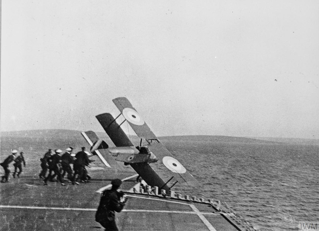 IWM caption : Squadron Commander E H Dunning's Sopwith Pup veering off the flight deck of HMS FURIOUS during his second and fatal attempt to land on the carrier while underway, Scapa Flow. See File:Dunning Landing-on Furious In Pup.jpg for preceding photograph.